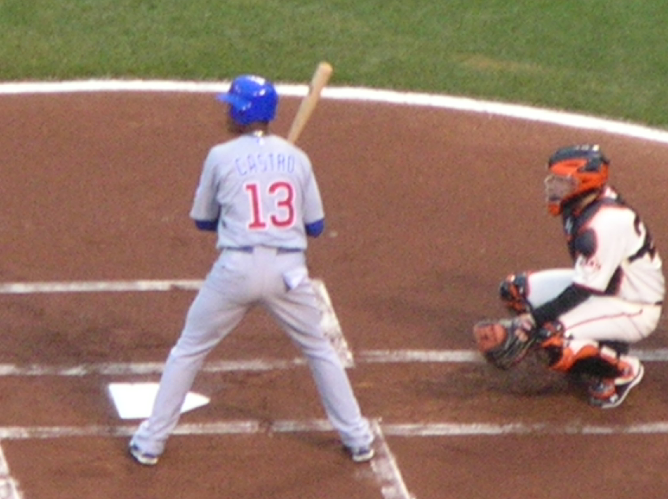 Chicago Cubs shortstop Starlin Castro at bat during an away game against the San Francisco Giants. The Cubs won 8-6.